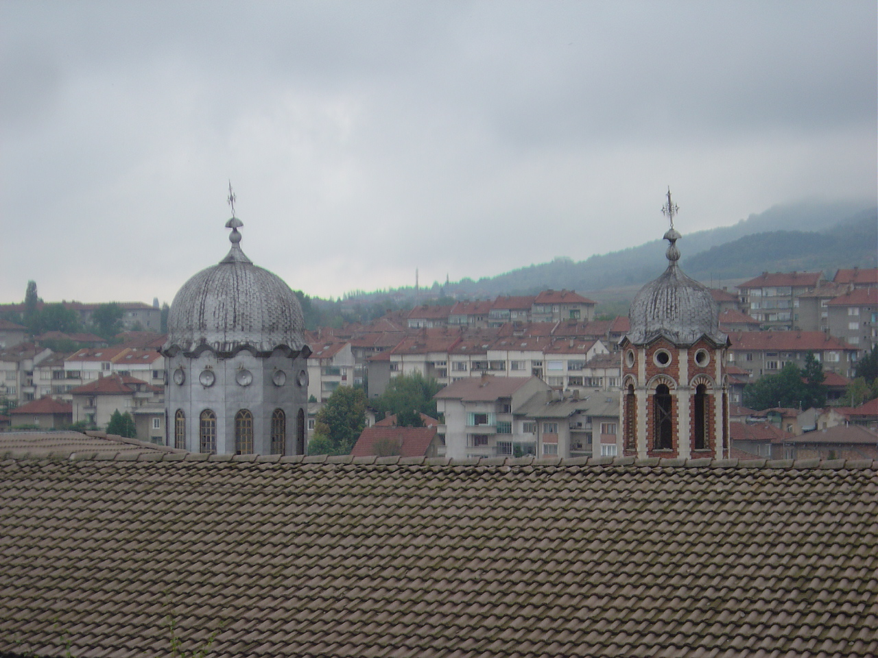 View of Gorna Oryahovitsa